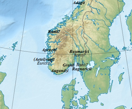 Locations of the Norwegian tribes described by Jordanes in Getica, as identified by modern historians.